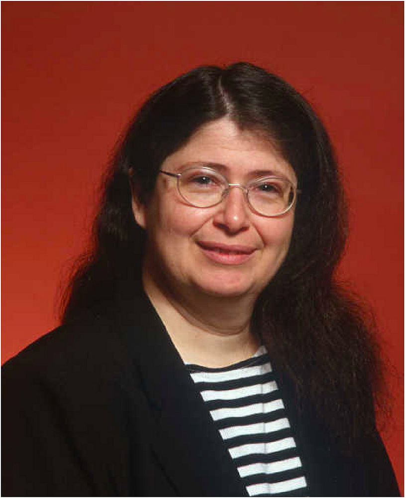 "It certainly changed our lives and unbelievably quickly," said Radia Perlman of Intel about the advent of the Internet. See more: The Many Sides of Radia Perlman Call her a mother of two, but don’t call Radia Perlman the "Mother of the Internet." See more: Internet Turns 30 TCP/IP switchover paved way for modern Internet.